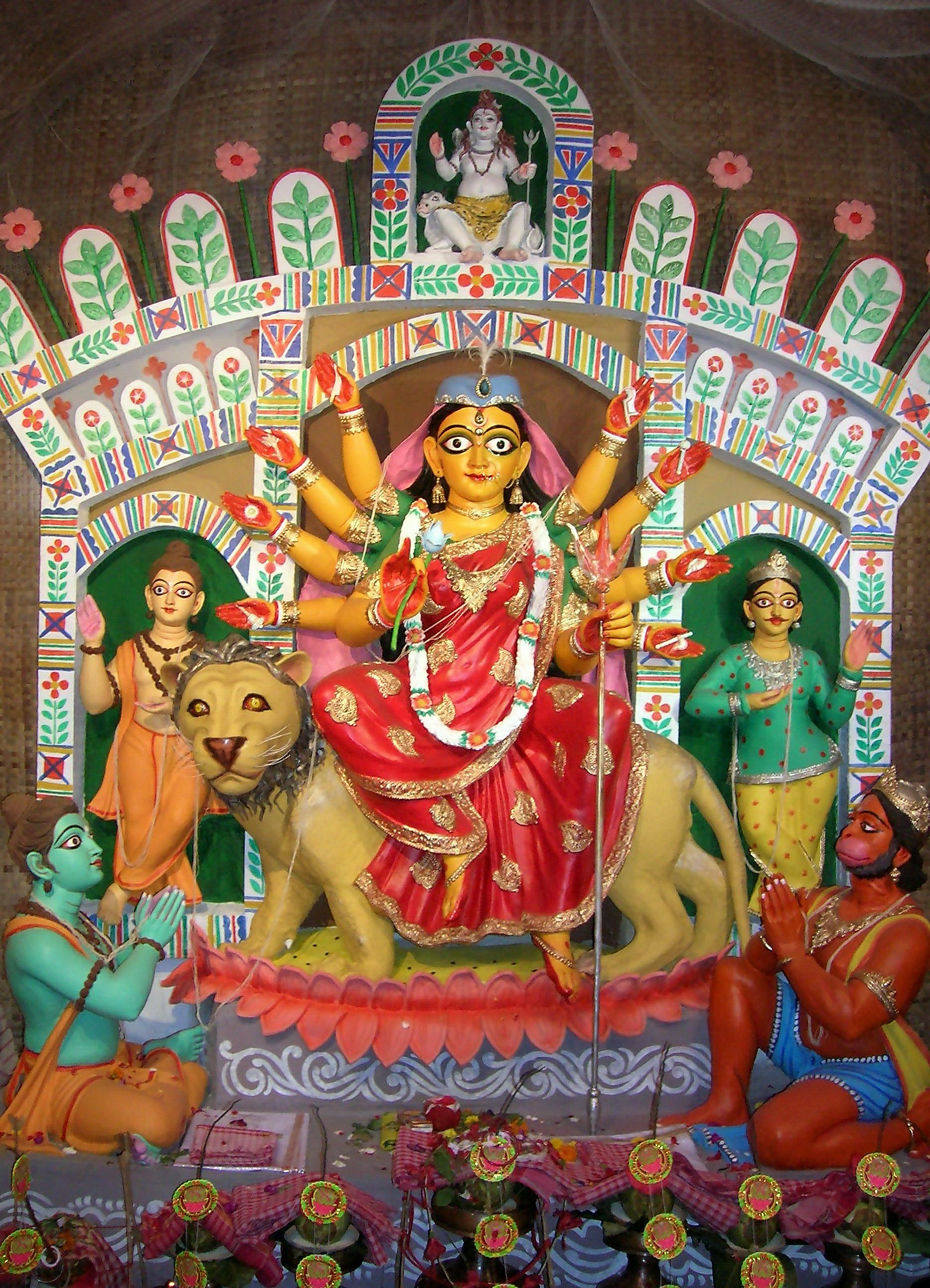 Depiction of Rama's Durga Puja at Kidderpore's Venus Club Pandal, Kolkata